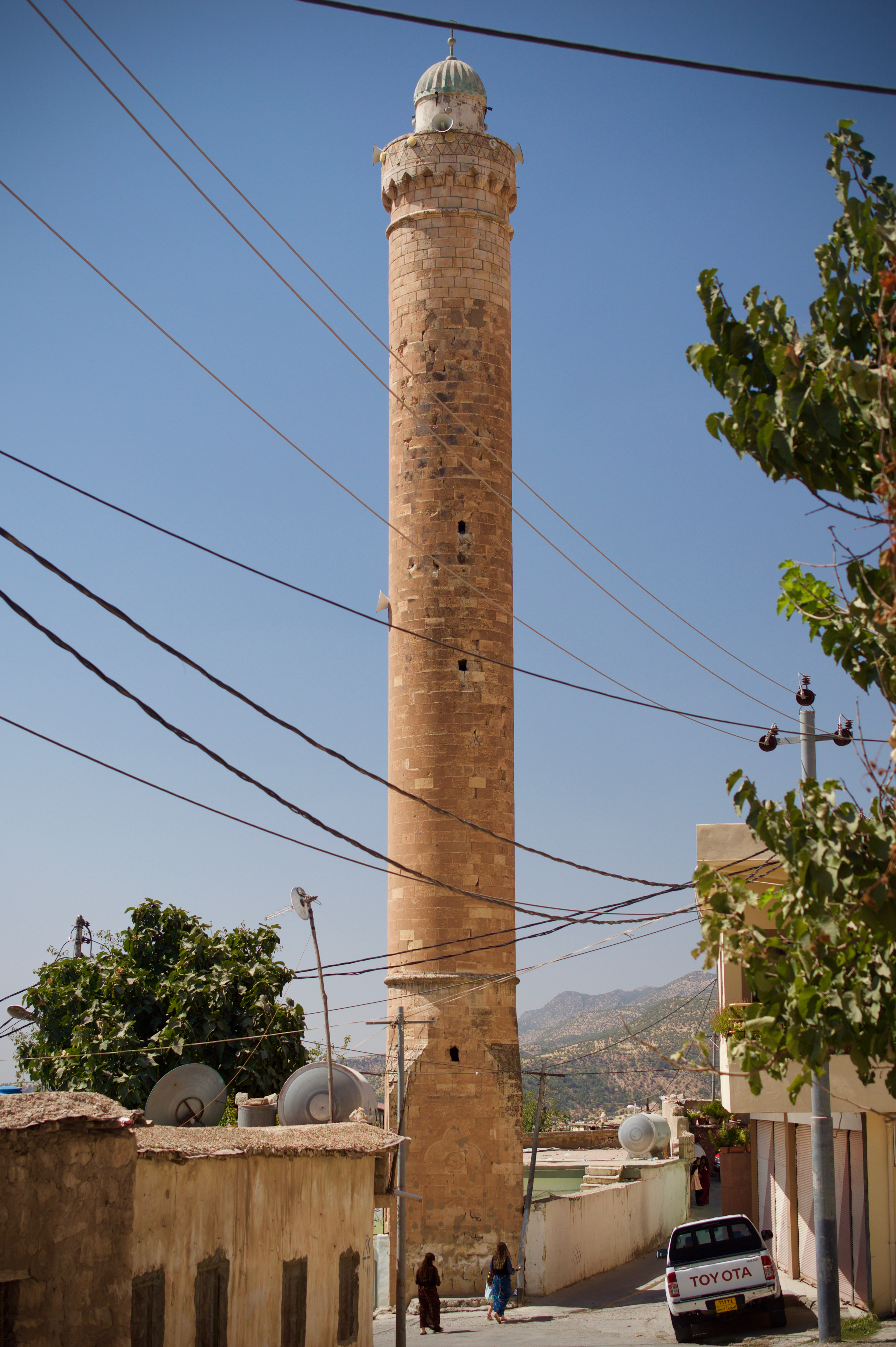 Minaret of the main mosque in Amedi